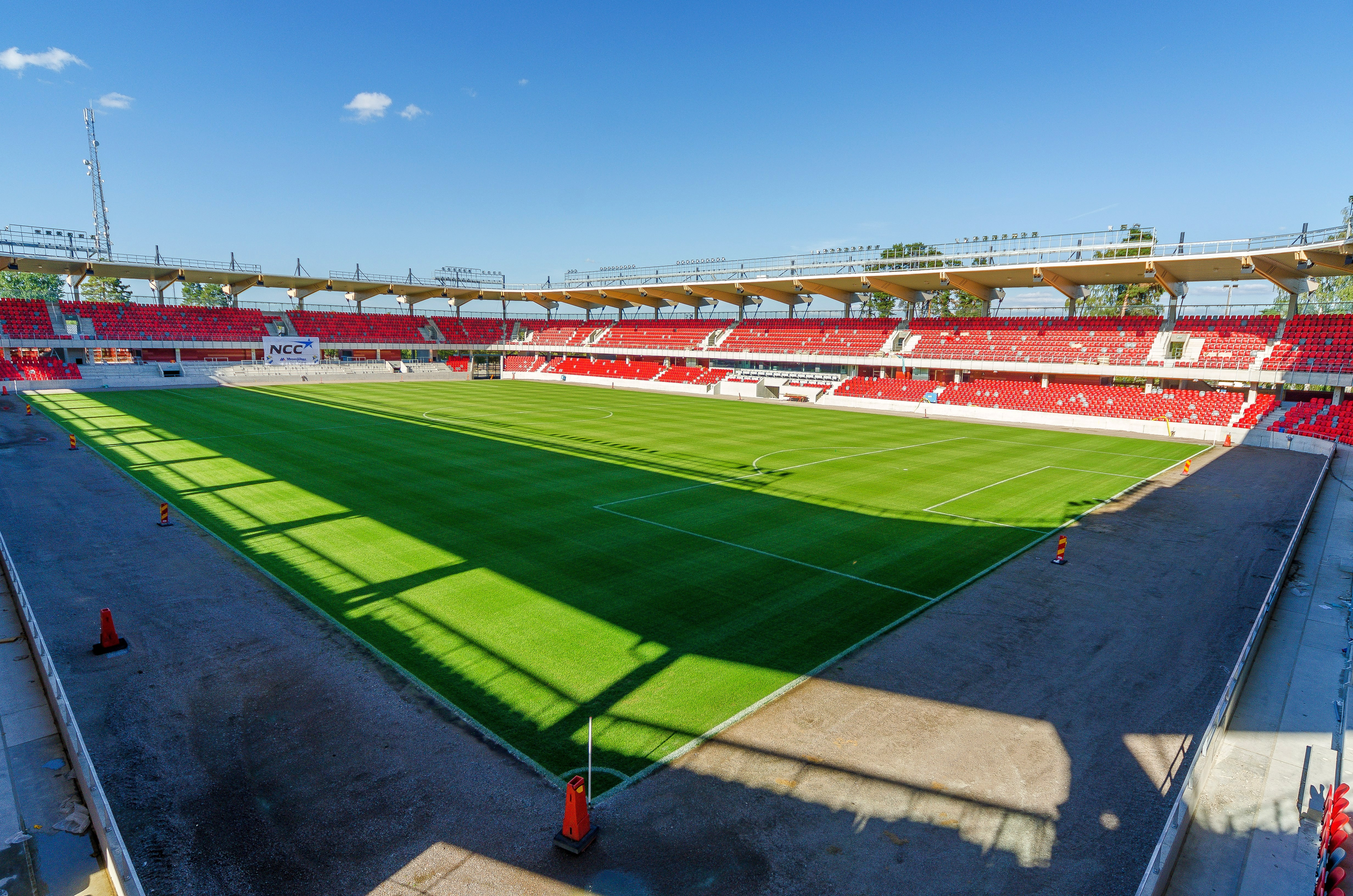 Östers IF's new Myresjöhus Arena, viewed from the upper tier of the southwest corner.